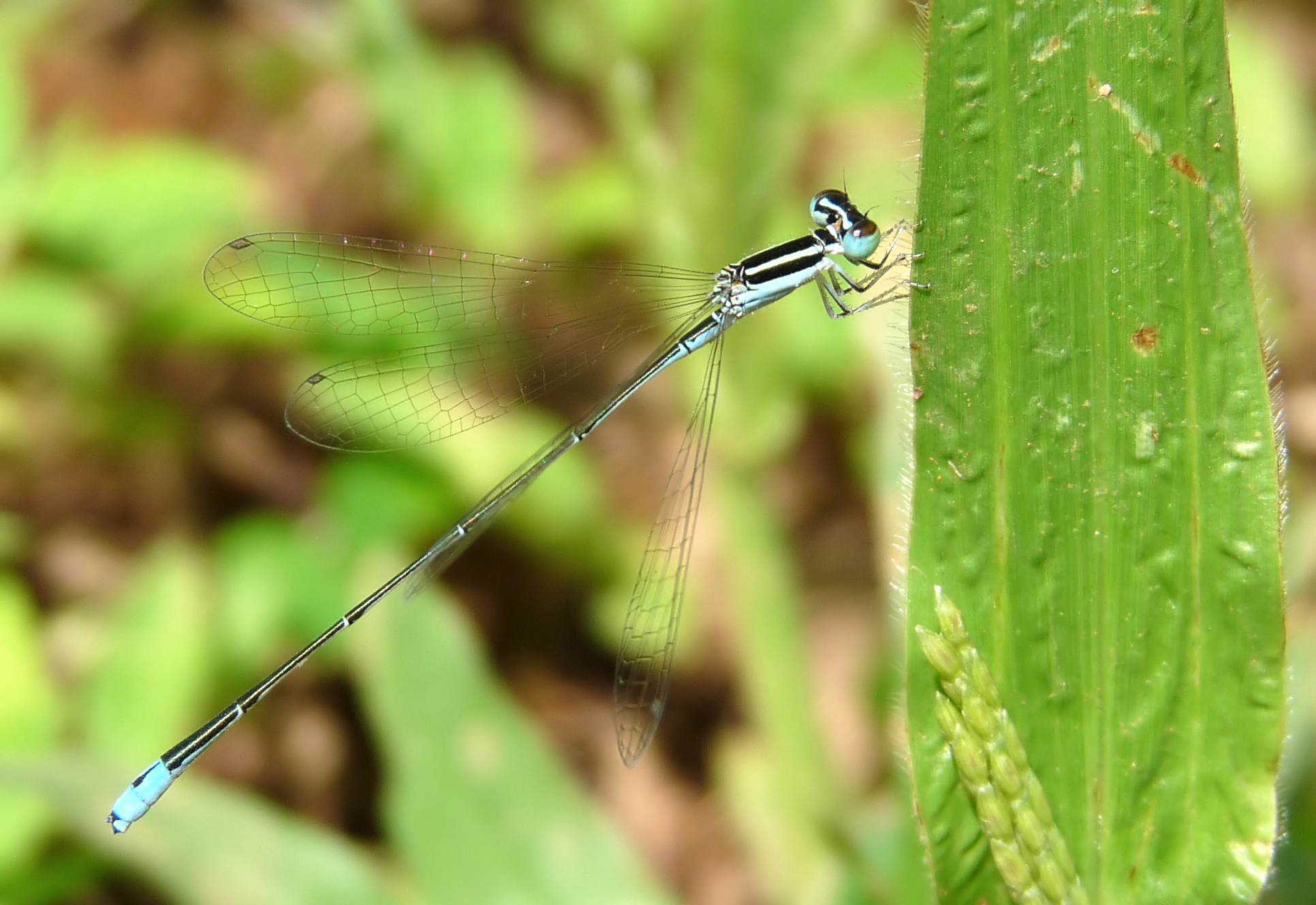 Aciagrion is a genus of damselfly in family Coenagrionidae. It has a wide range from Africa, through Indonesia to Australia. They are commonly known as "Slims". Green-striped Slender-Dartlet or Asian Slim Damselfly (Aciagrion occidentale) is found in Southern India, Sri Lanka and questionably in south Asian counties where another damselfly Aciagrion borneense resembles this very very closely. Male Aciagrion occidentale has a long and slim abdomen; female similar to the male. The male does have a very slight tinge of green dorsally on the thorax, but is very pale compared to that of A. borneense. Aciagrion occidentale is widely distributed in grasslands in open grass besides weedy ponds and marshy areas. Suitable habitat is shrub dominated wetlands although it can also be found in bogs, marshes, swamps, fens, peatlands, small streams and permanent freshwater lakes.